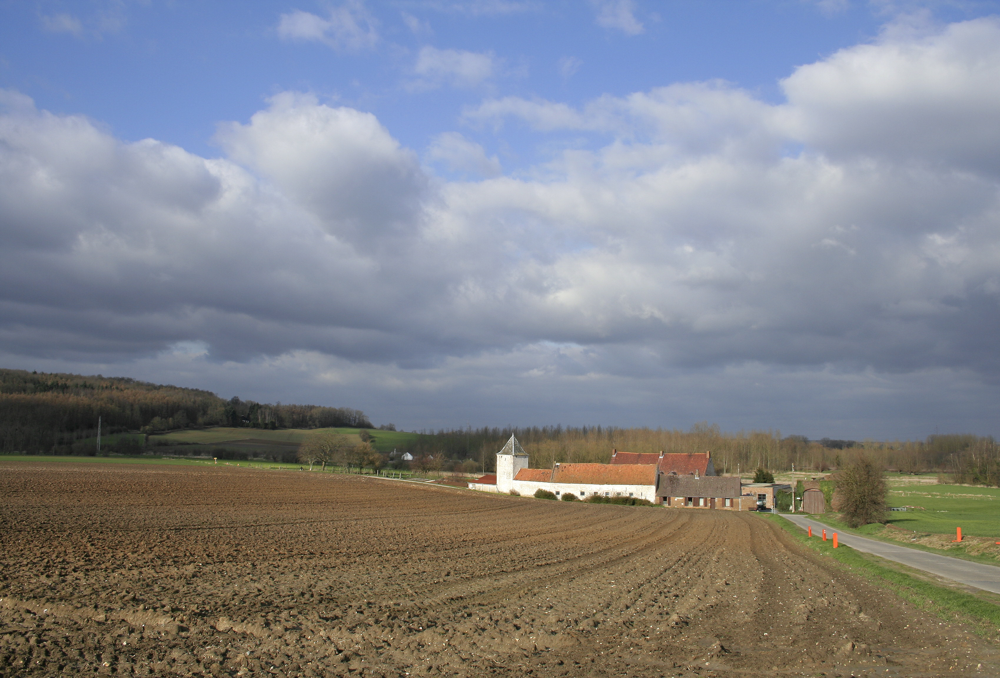 Spiennes (Belgium), farm of the rue du Point du Jour.